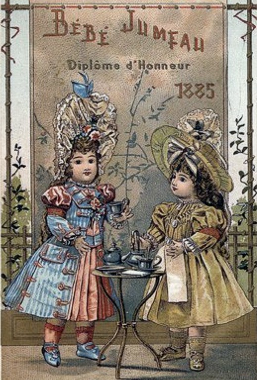 Advertising material printed by the doll-making firm of Pierre Francoise Jumeau